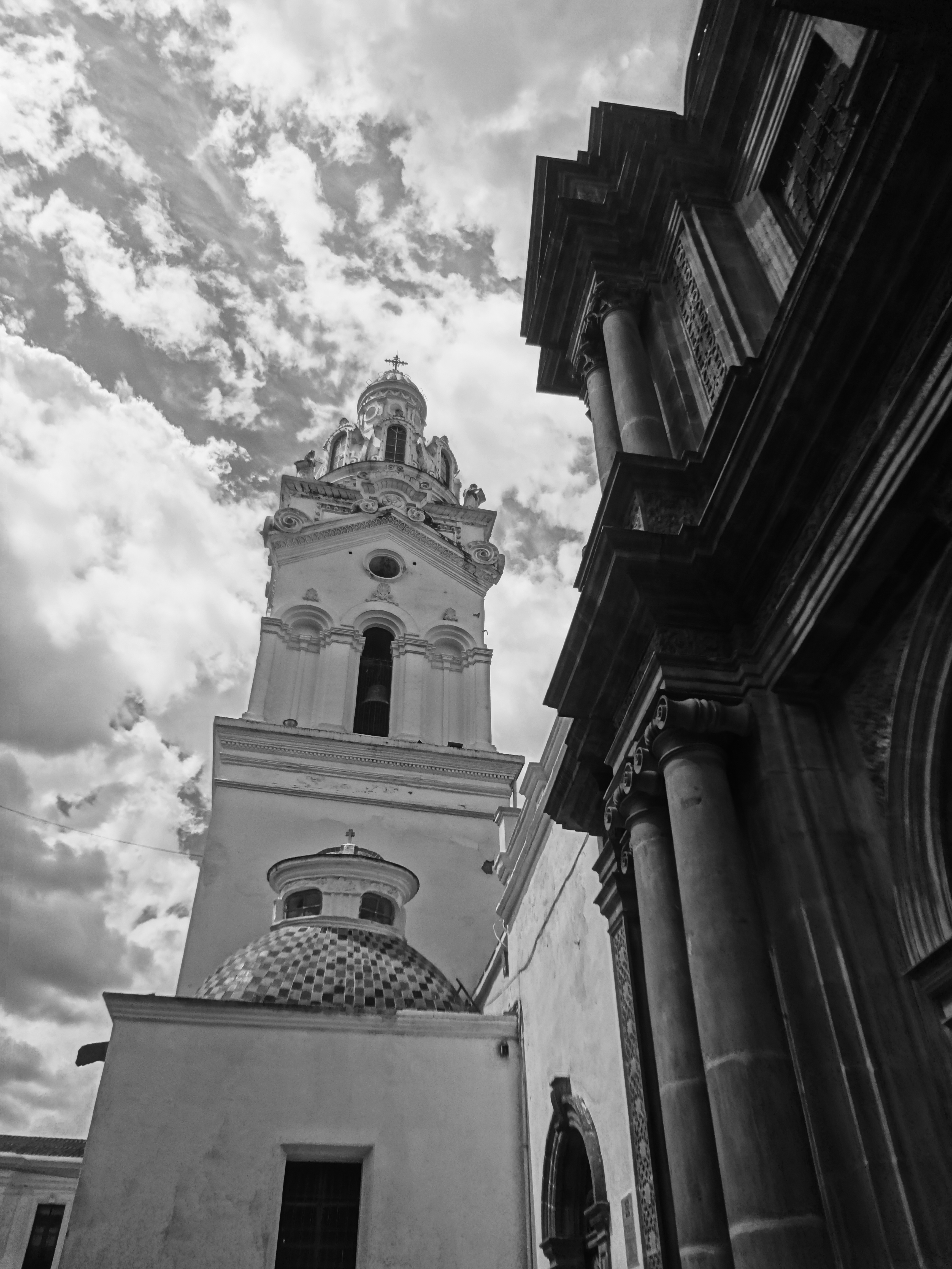 The campanario (belltower) of the Metropolitan Cathedral of Quito; Historic Center of Quito - World Heritage Site by UNESCO